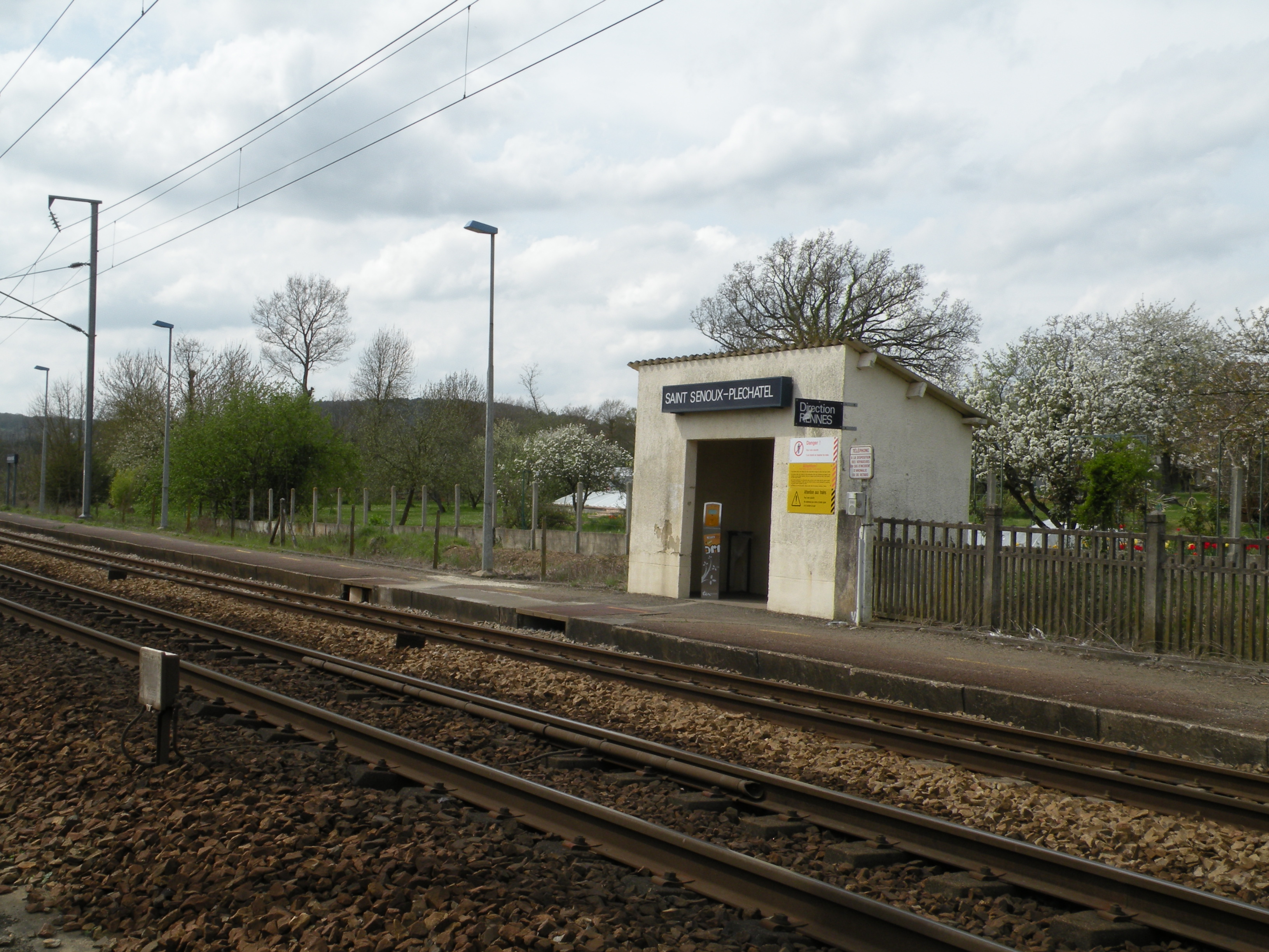 Train station of Saint-Senoux - Pléchâtel